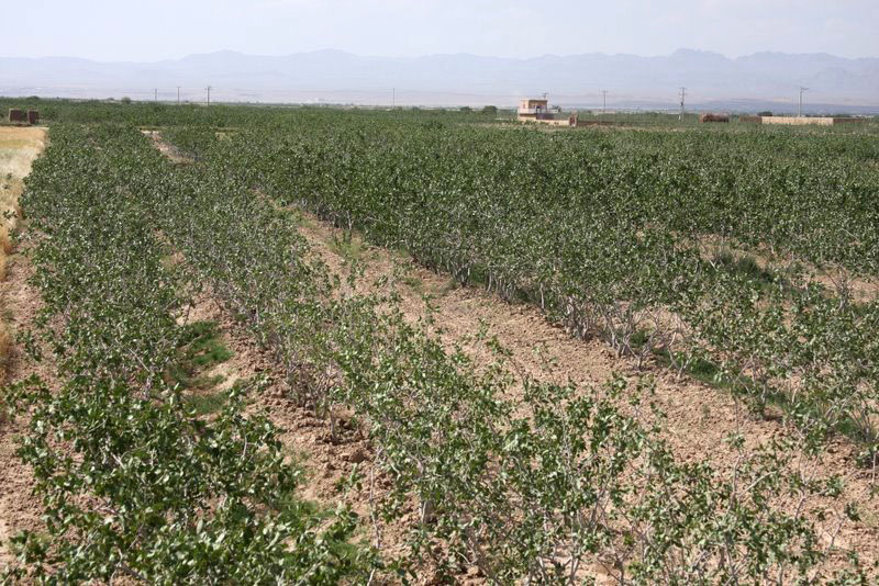 Pistachio farm in Bardeskan.